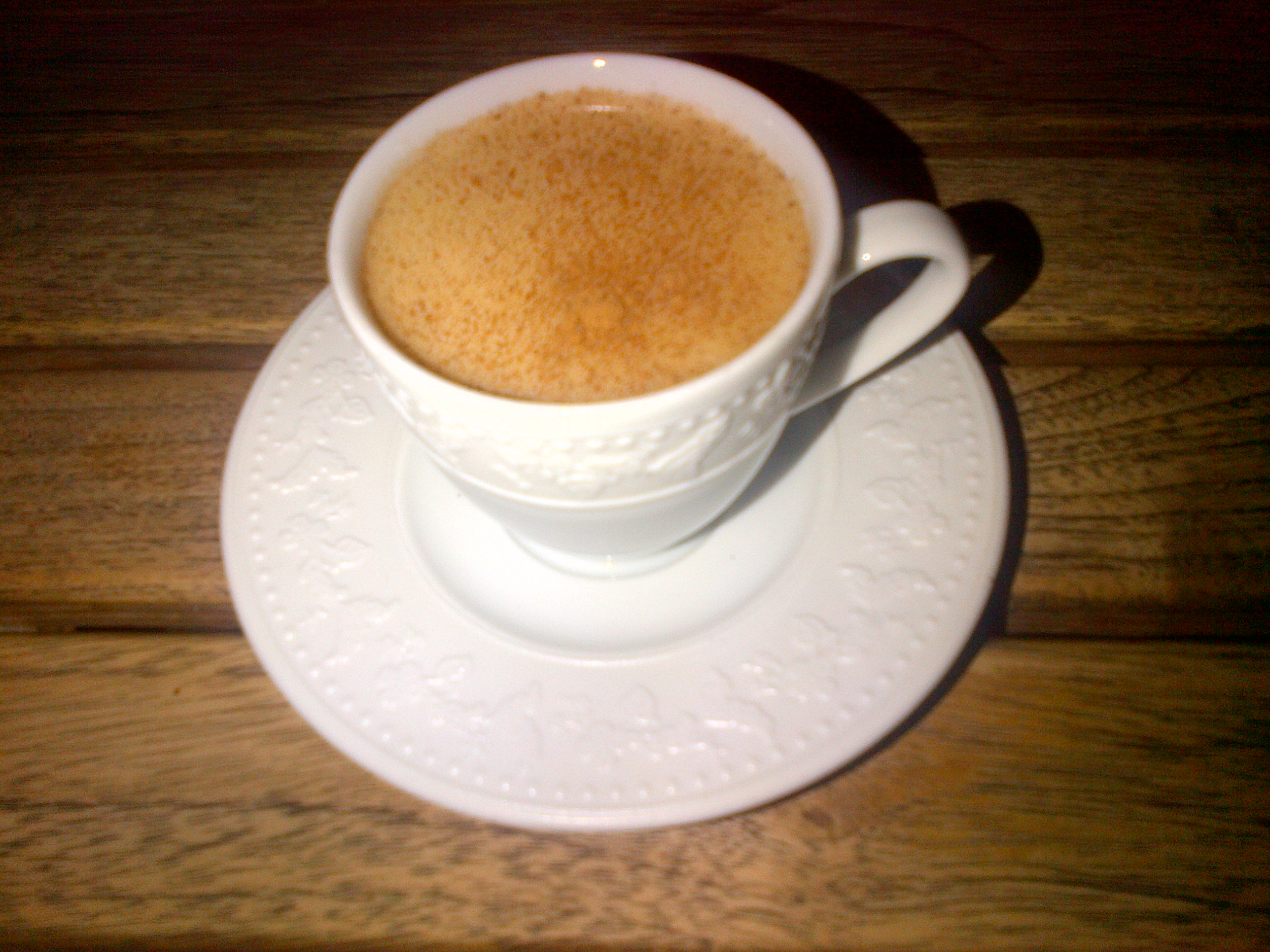 A cup of salep in Ankara, Turkey.